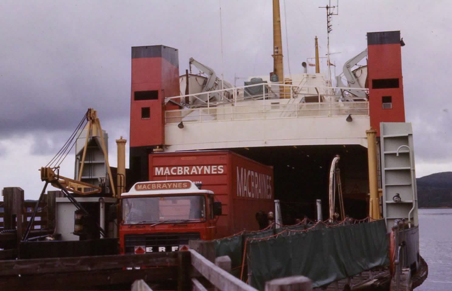 ERF MacBrayne lorry onboard MV Iona on Islay ferry route